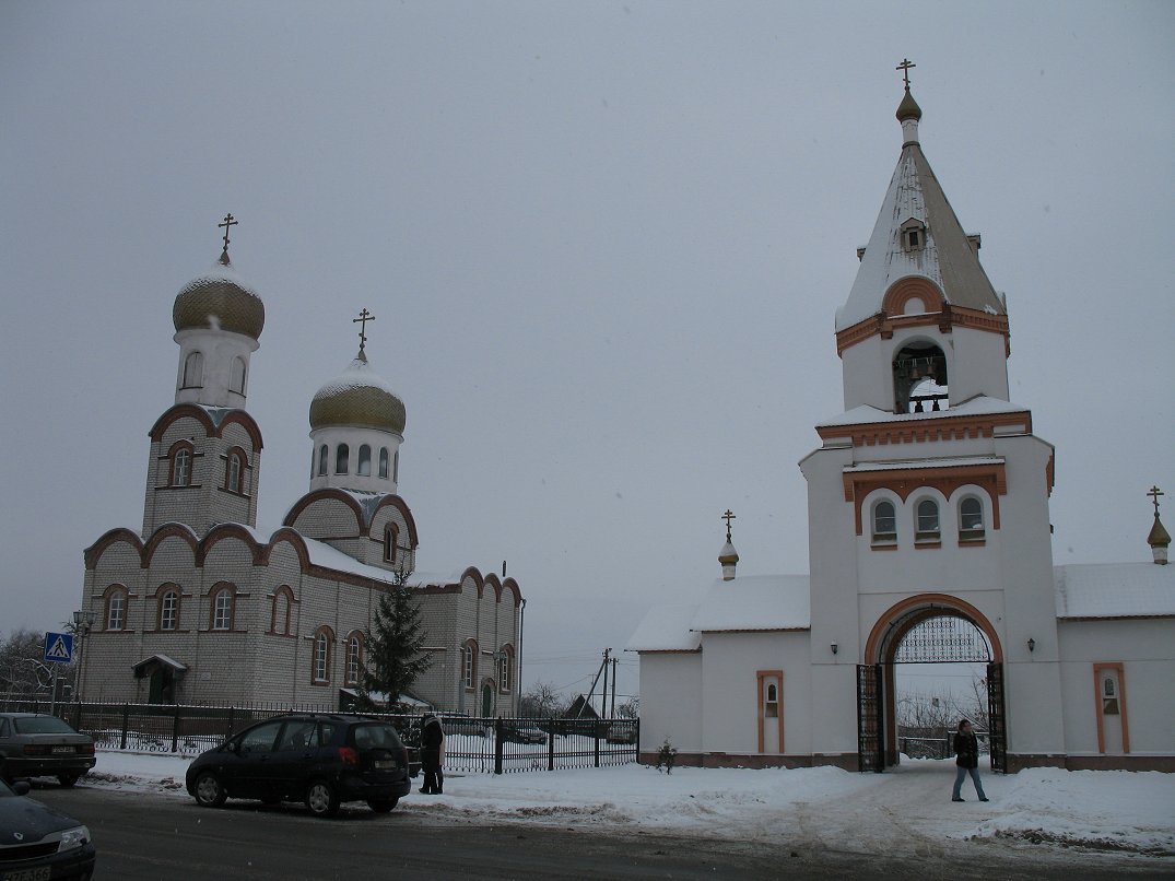 Orthodox church in Zhlobin, in Gomel oblast (province) of Belarus. This church is relatively new (from mid 1990's).